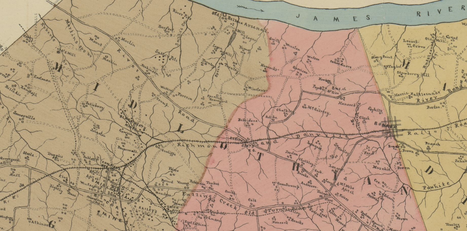 Map of Chesterfield County, Virginia 1888 (cropped to Midlothian mines area)